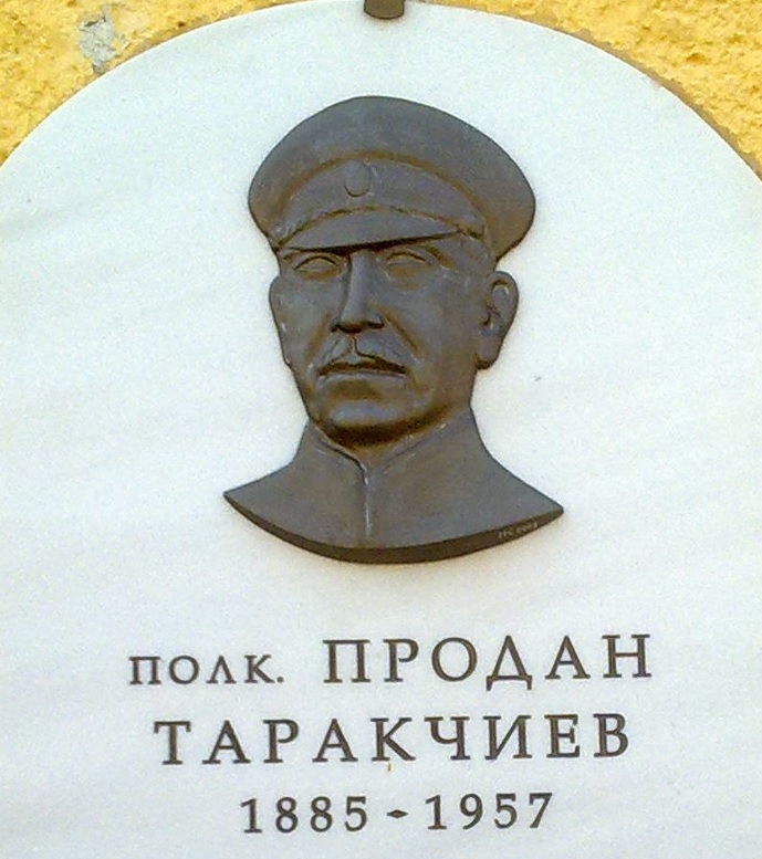 A monument of Prodan Tarakchiev - a Bulgarian officer and fighter pilot. Participated in the Balkan war.